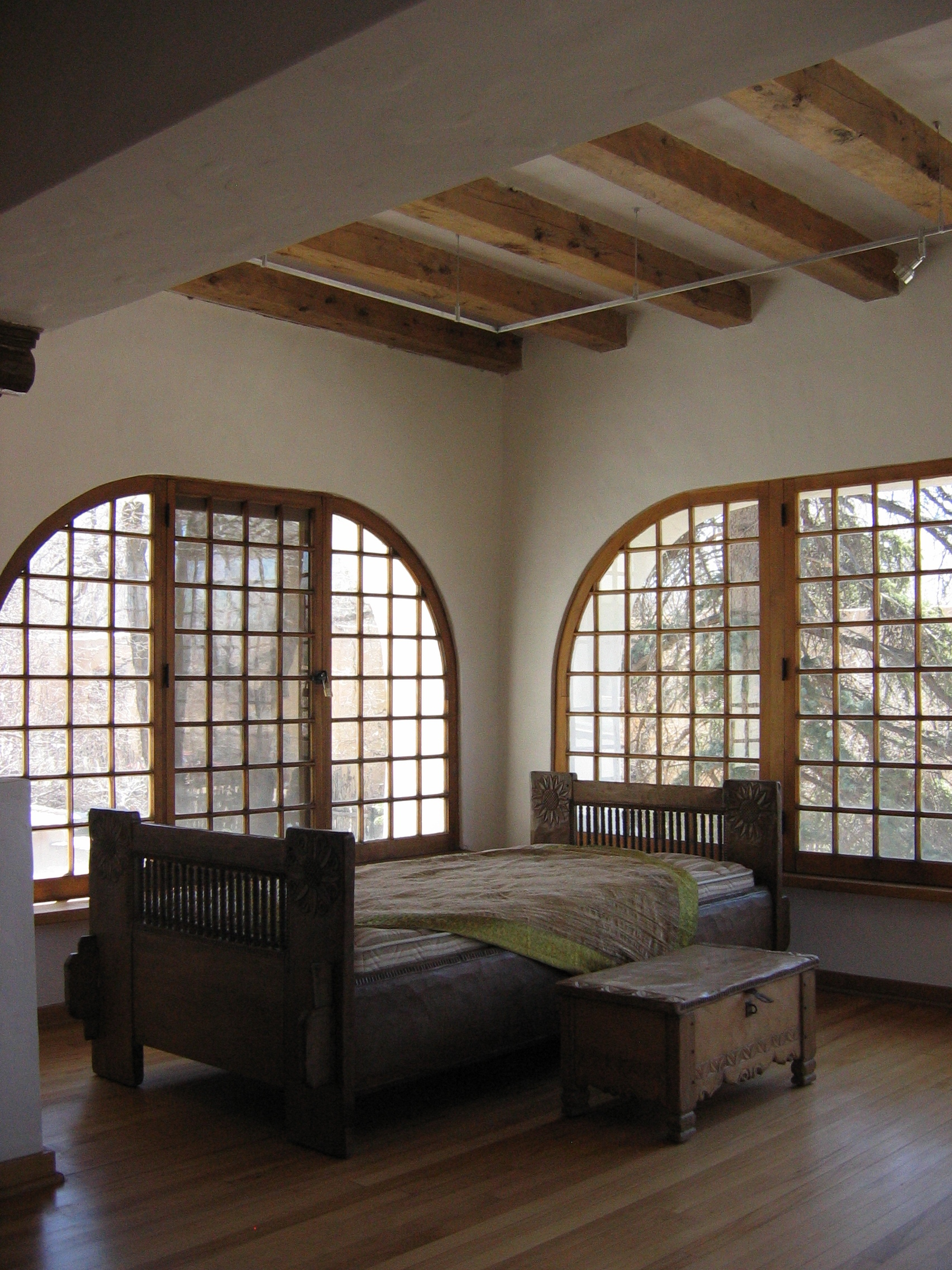 Fechin House - Daughter's Playroom